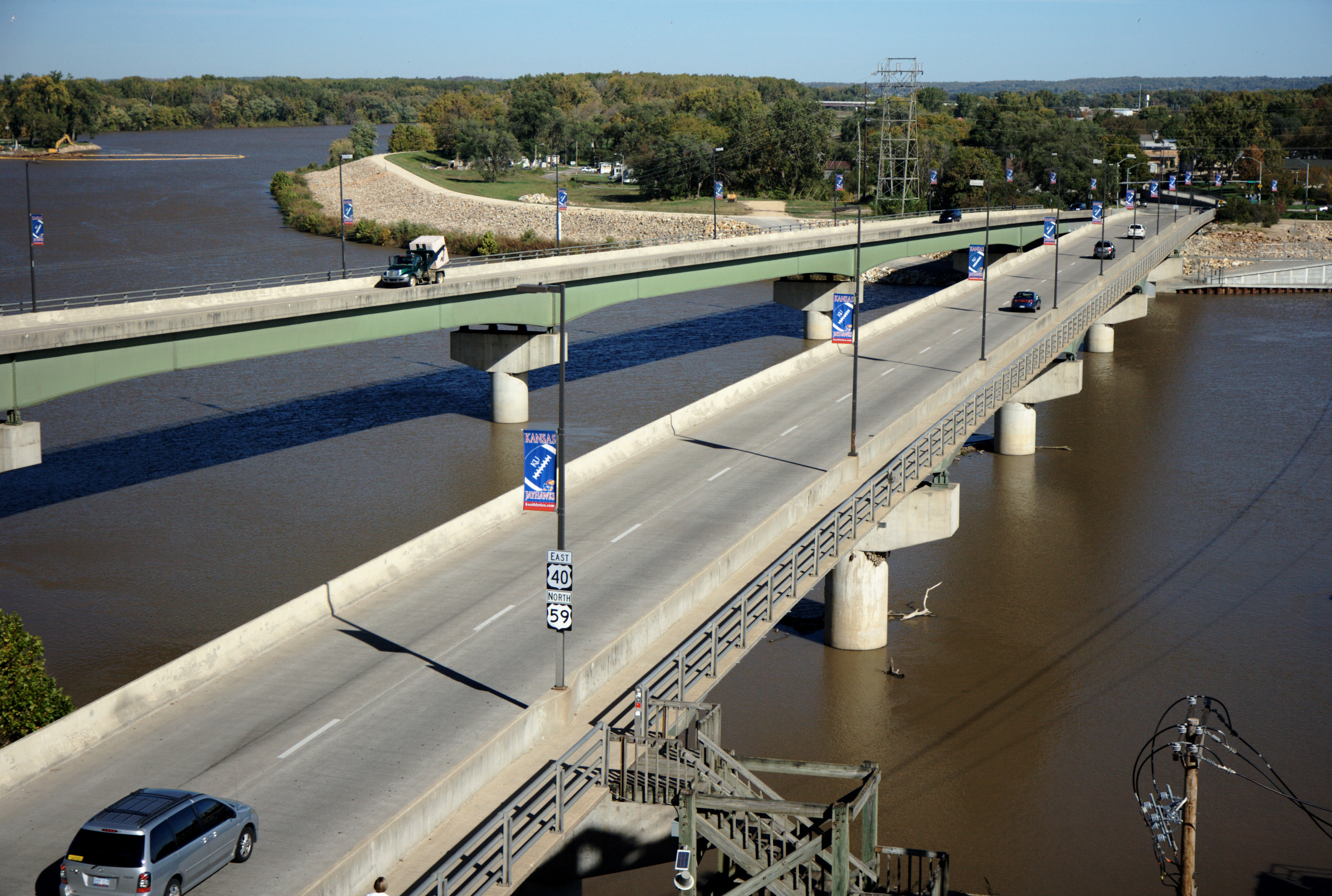 The U.S. 40 and 59 Bridges carry traffic across the Kansas River at Lawrence, Kansas. This view is from City Hall.